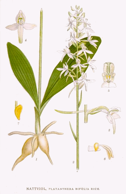 Original Description Nattviol, Platanthera bifolia (L.) Rich.